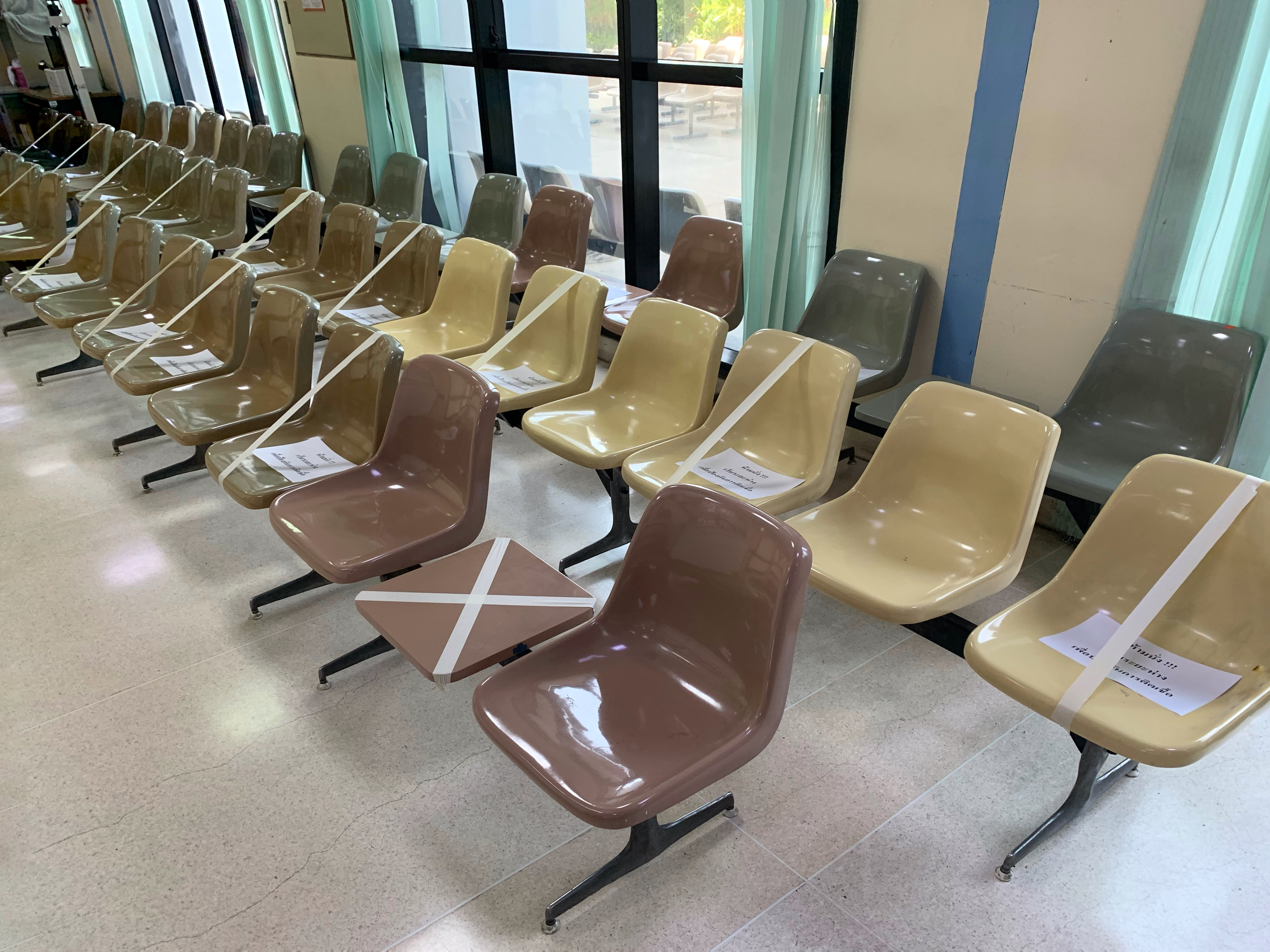 The seats at Chulalongkorn Hospital, Bangkok were marked for people to sit separately in response to slow down the spread of COCID-19. The seats were usually full with waiting patients.